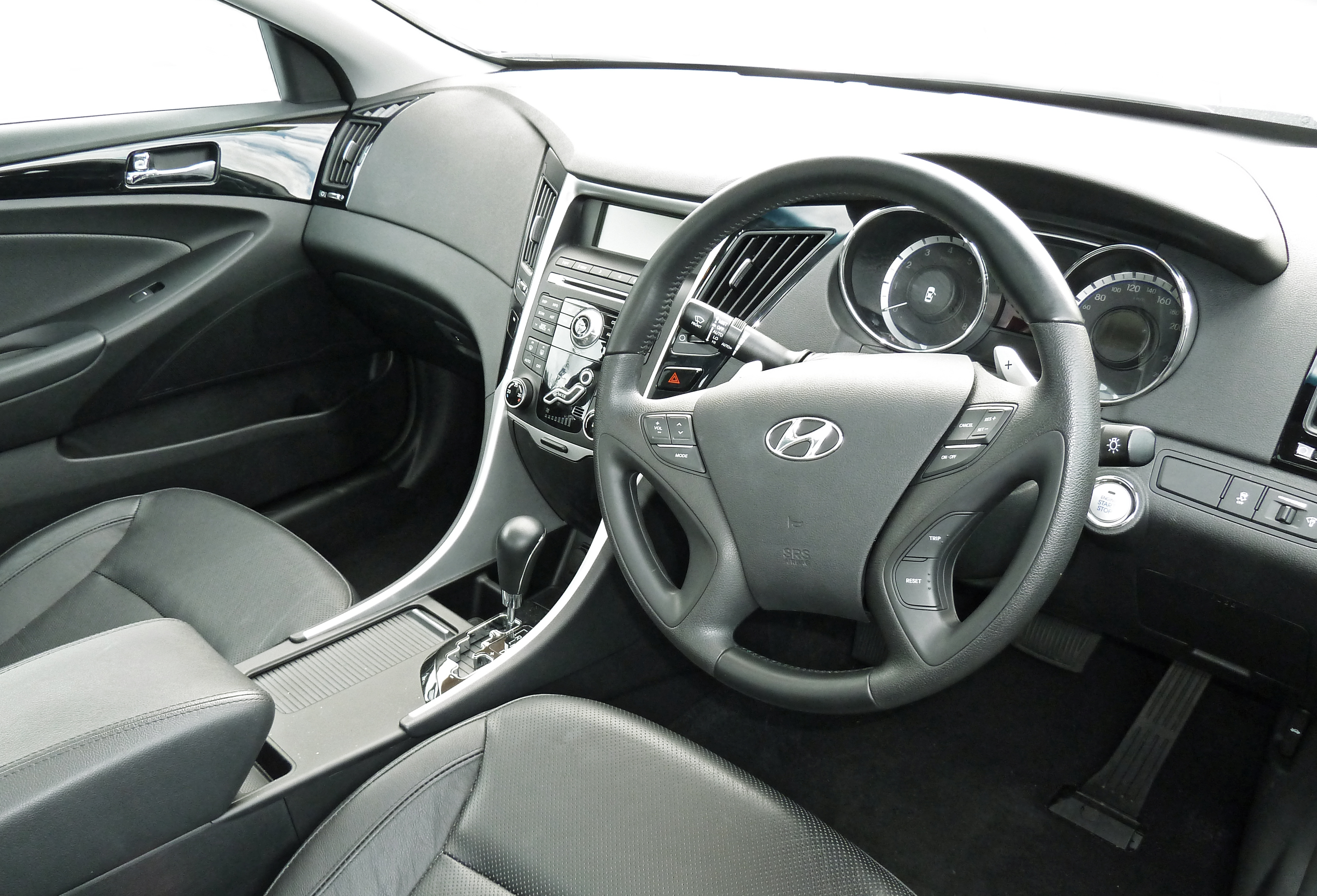 2010 Hyundai i45 (YF MY10) Premium sedan. Photographed at Tynan Motors, Kirrawee, New South Wales, Australia.